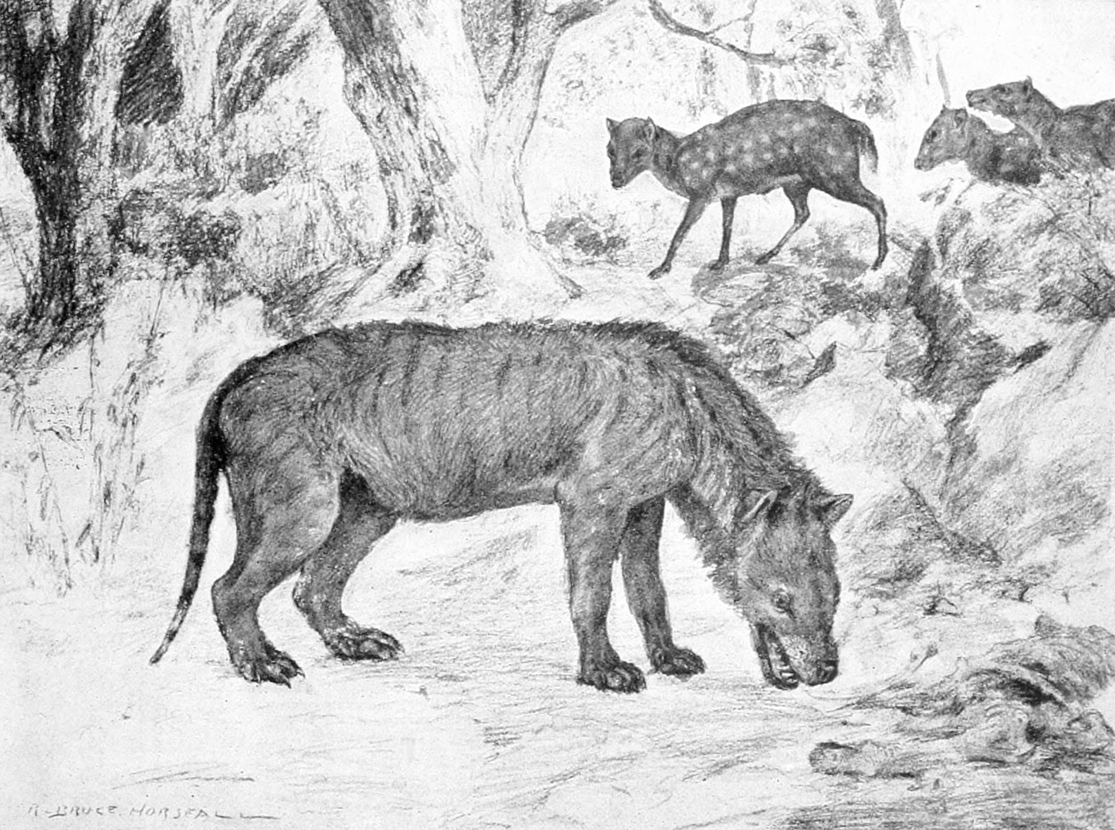 Life restoration of Hyaenodon horridus and Leptomeryx evansi from White River, in W.B. Scott's "A History of Land Mammals in the Western Hemisphere." New York: The Macmillan Company.